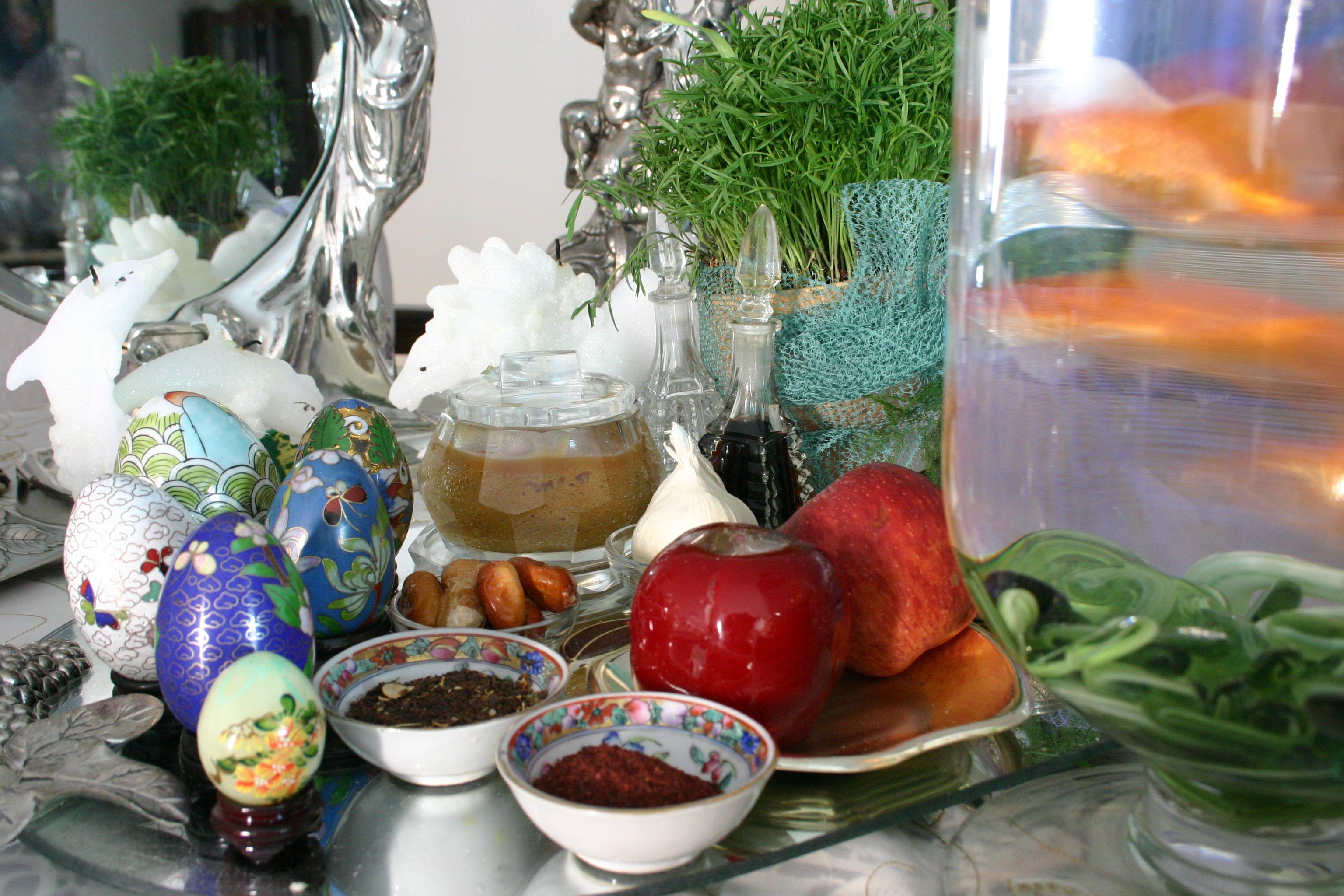 Haftsin table of Nowruz, Iranian tradition of new year